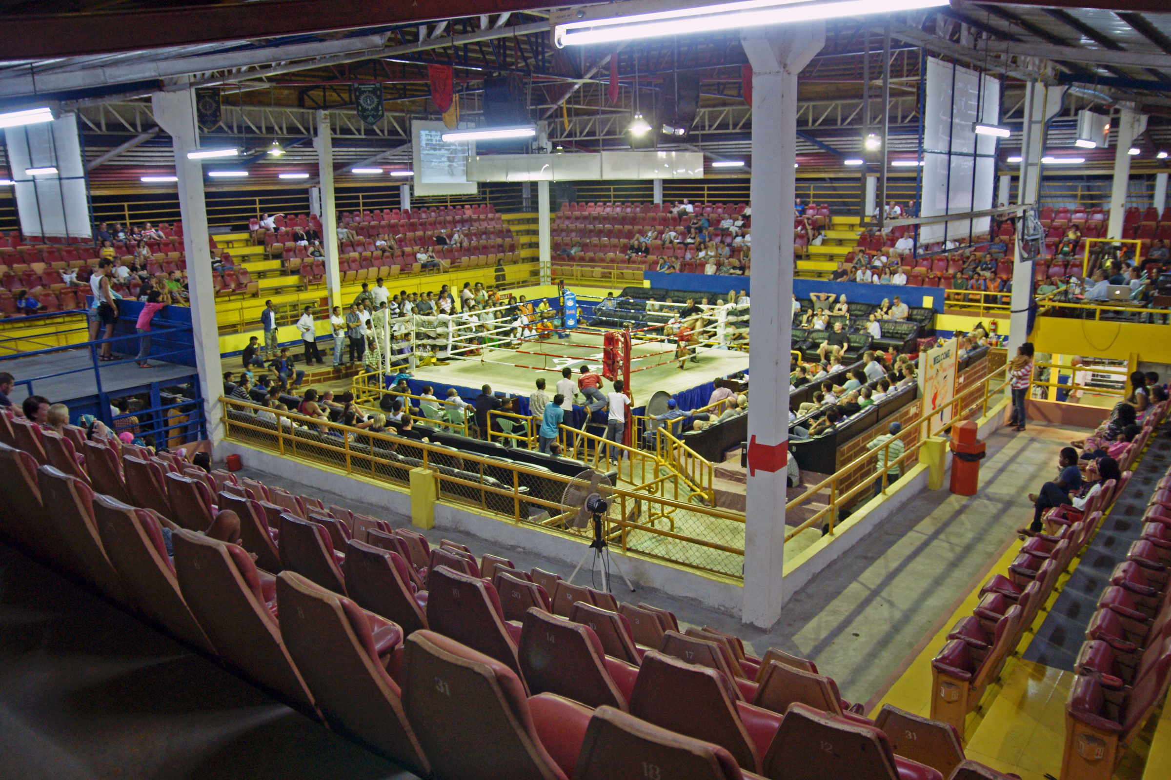 Aonang Krabi Muay Thai Stadium in Ao Nang, Krabi, Thailand.